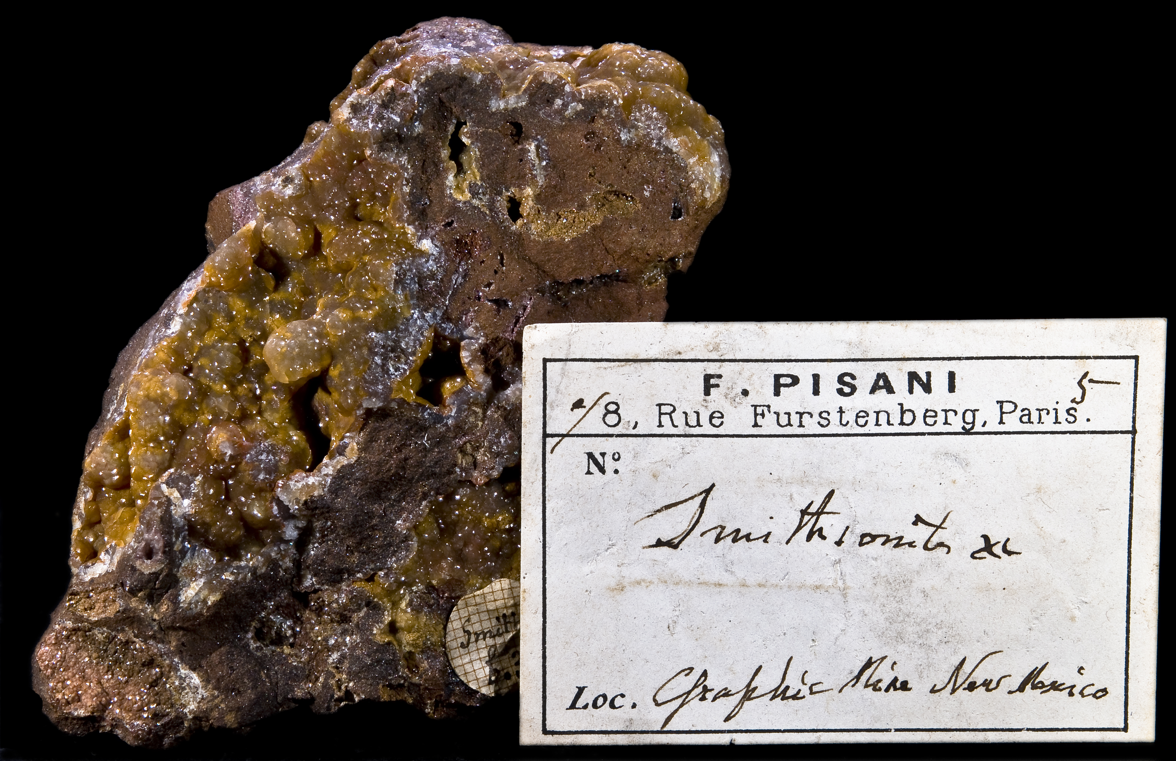 Smithsonite with autograph annotations of Felix Pisani - Graphic Mine (Graphic shaft; Waldo-Graphic mine), Magdalena District, Socorro Co., New Mexico, USA